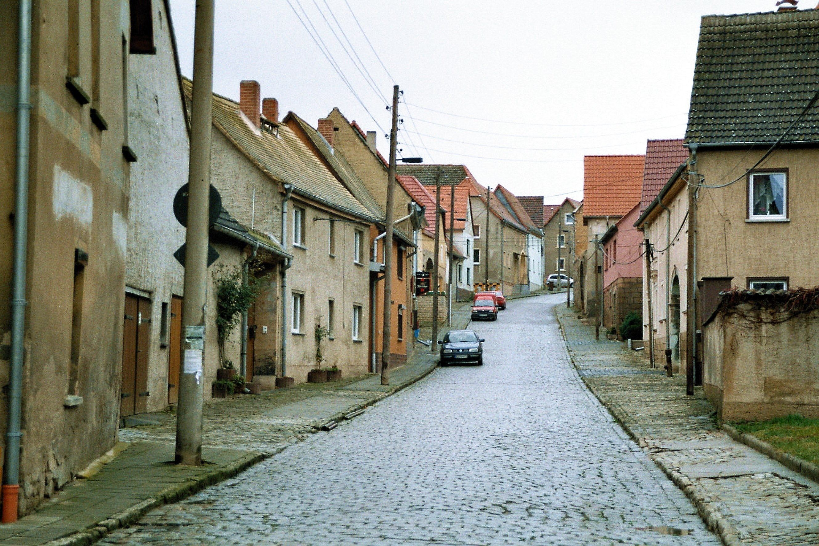 Altenroda (Bad Bibra) - the street "Dorfstraße"